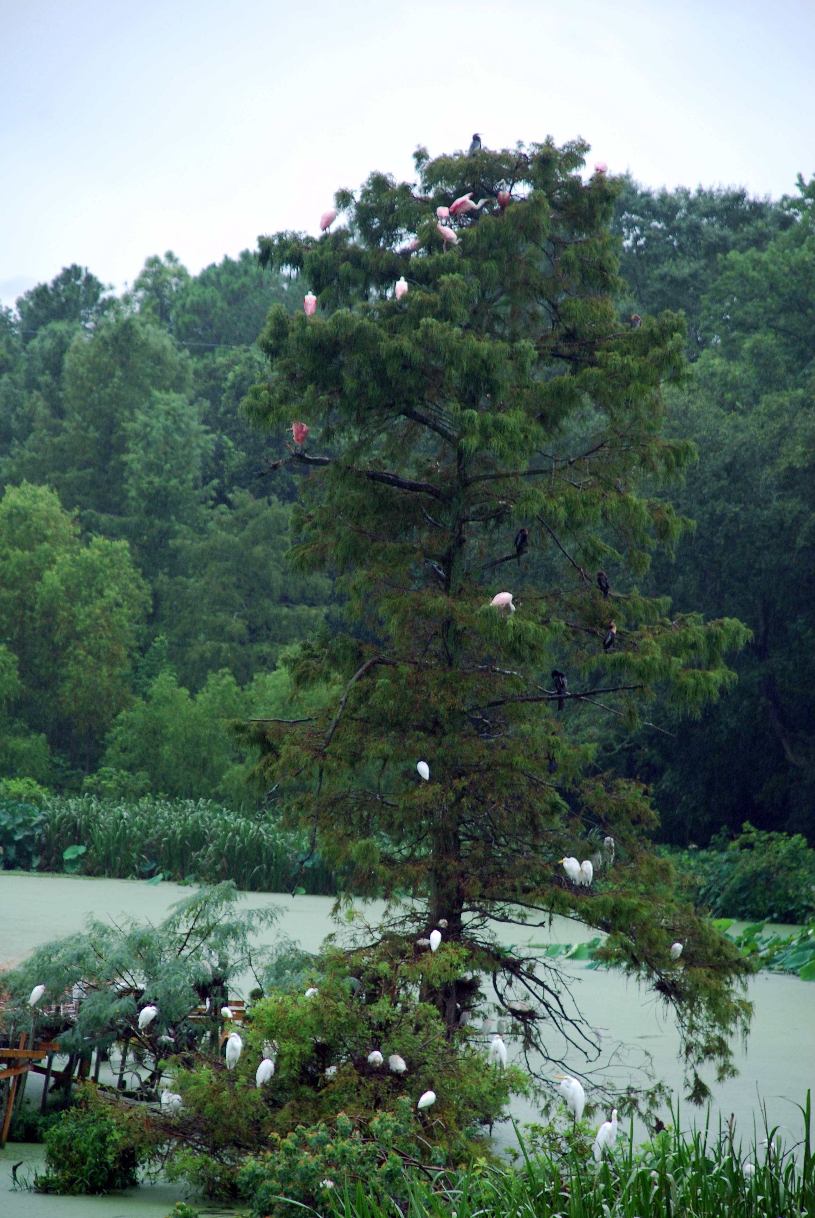 Egrets, herons and spoonbills in a tree in Bird City, Jungle Gardens, Avery Island, Louisiana.